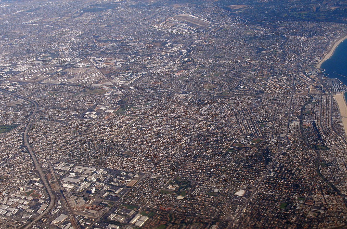 The city of Torrance, California as viewed from above by a passing airplane. Photographed on August 10, en:2006 by user Coolcaesar.